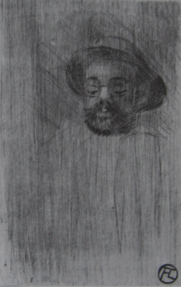 Henry Somm